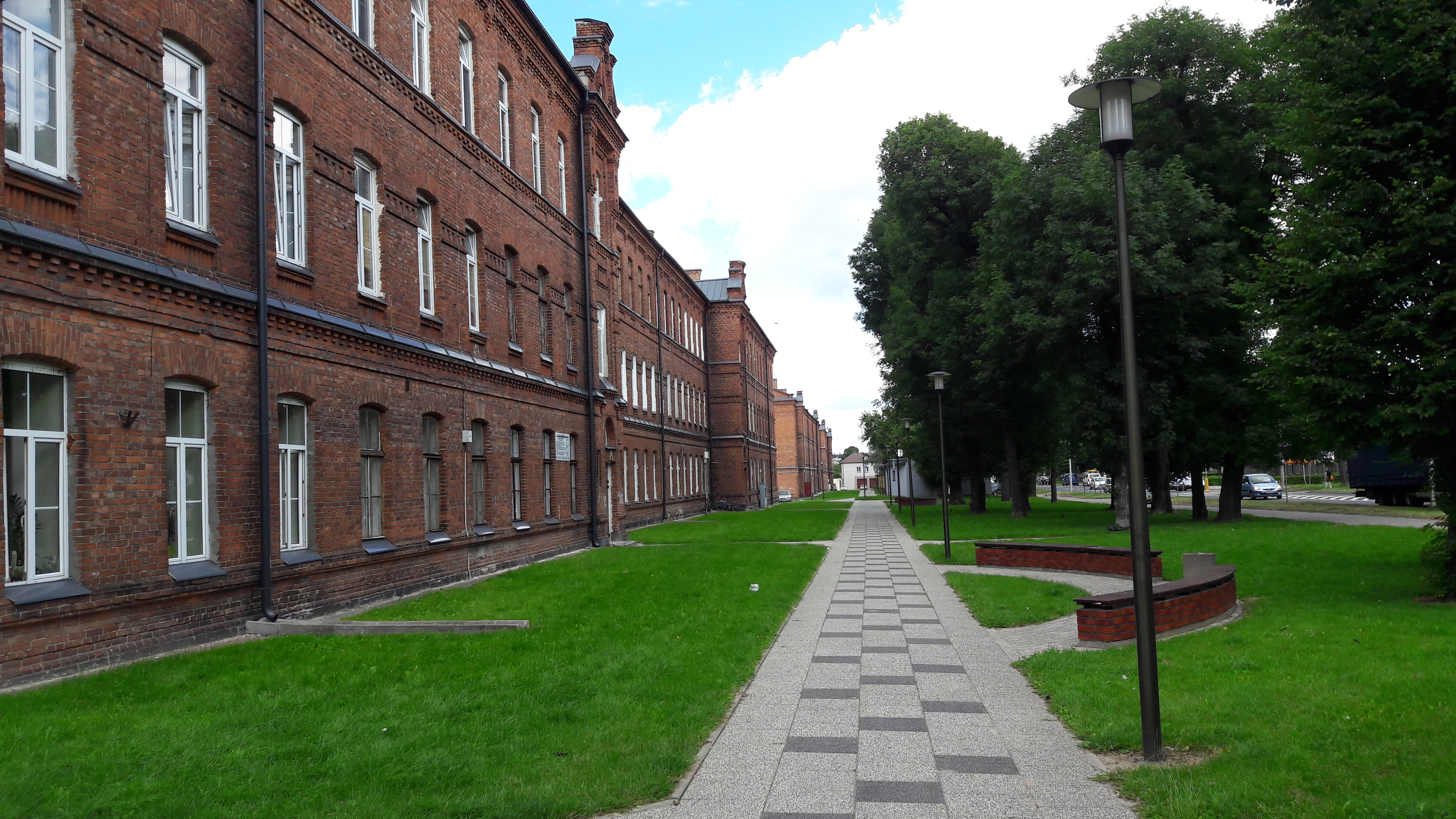 Zespół koszar carskich